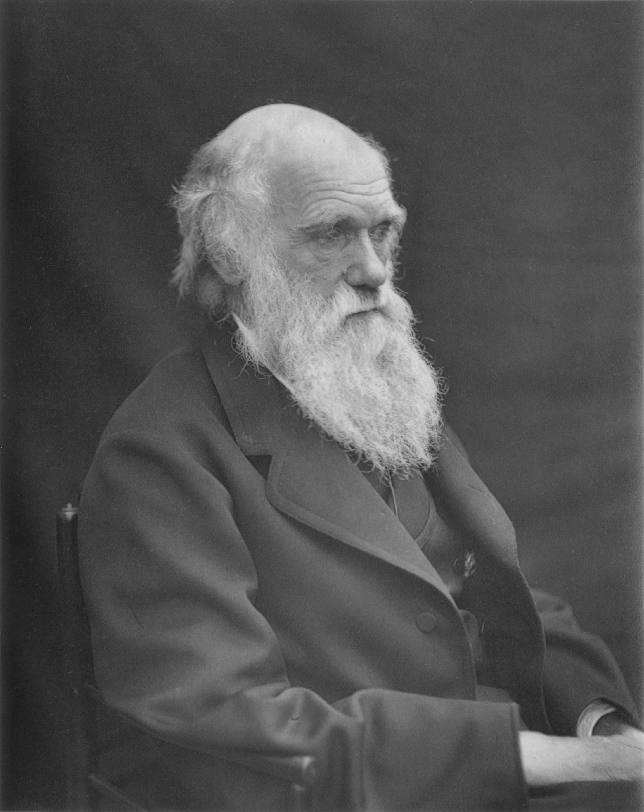 Photograph of Charles Darwin taken around 1874 by Leonard Darwin.